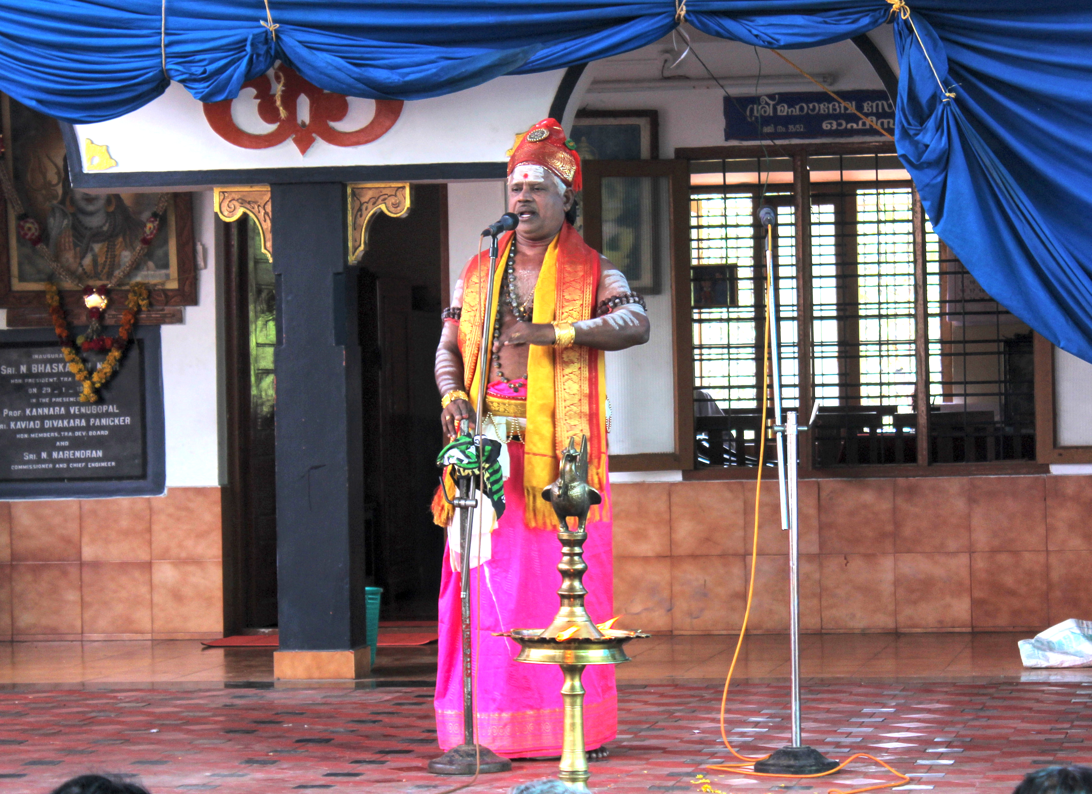 Pathakam, performed by Sreevalsam Venugopal, Venue: Chirakkadavu Sree Mahadeva Temple. This photo has been taken in the country: India